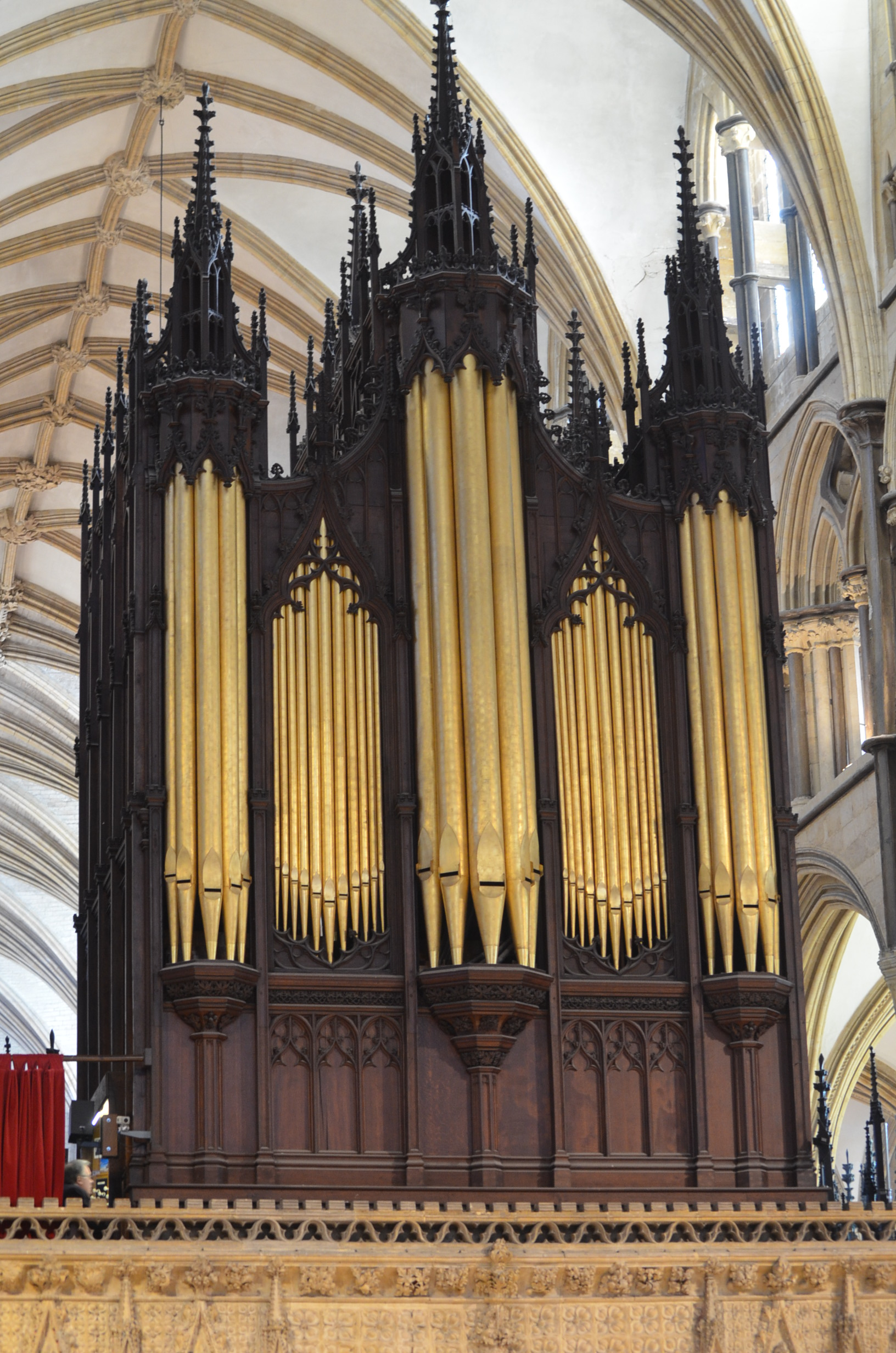 Organ, Lincoln Cathedral